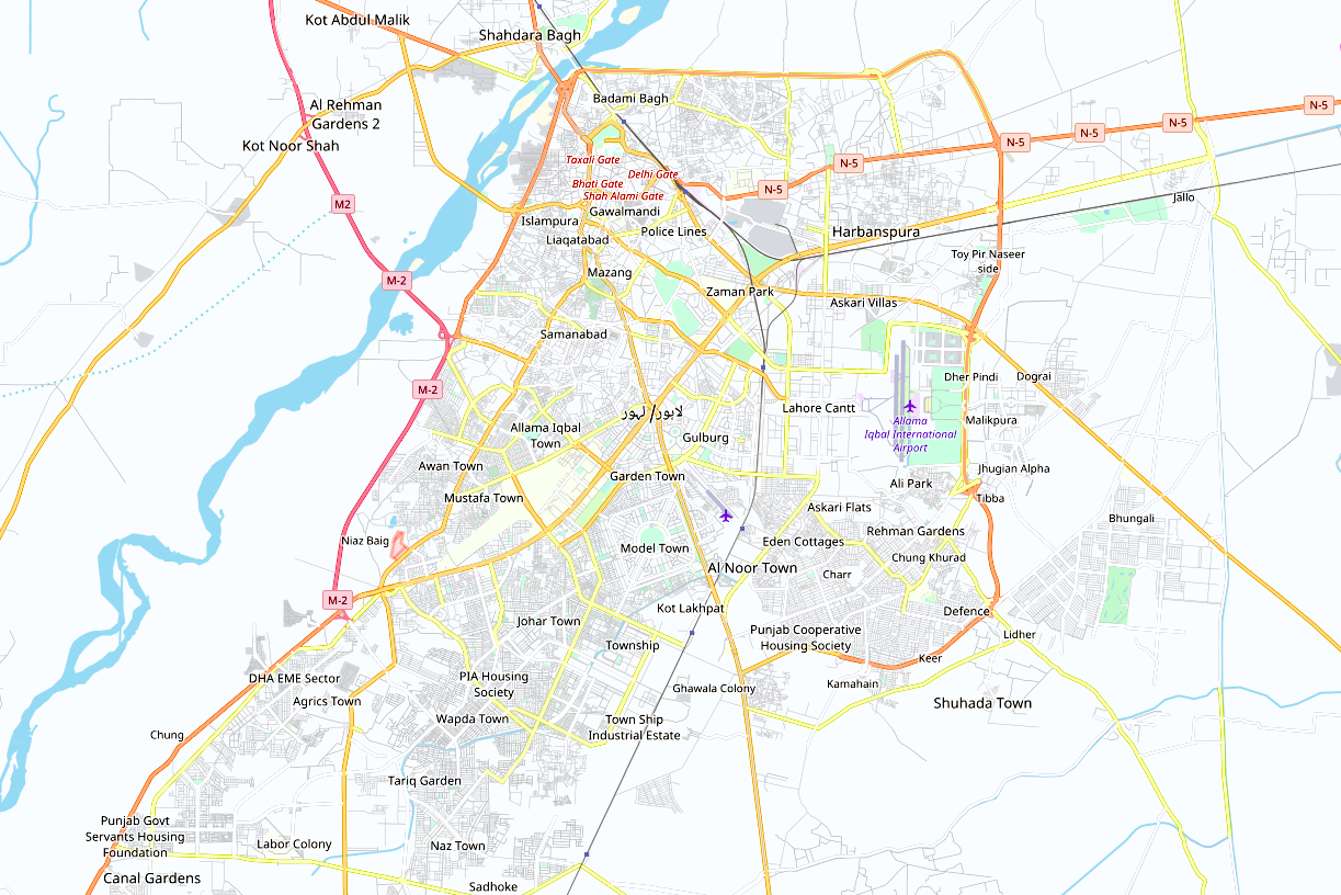 Map of the city of Lahore, Pakistan, indicating major roads, railways & airports.